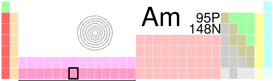 Created by User:Ahoerstemeier similar to the other element boxes